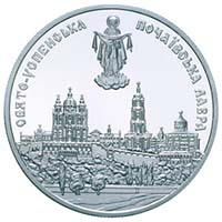 Coin of Ukraine